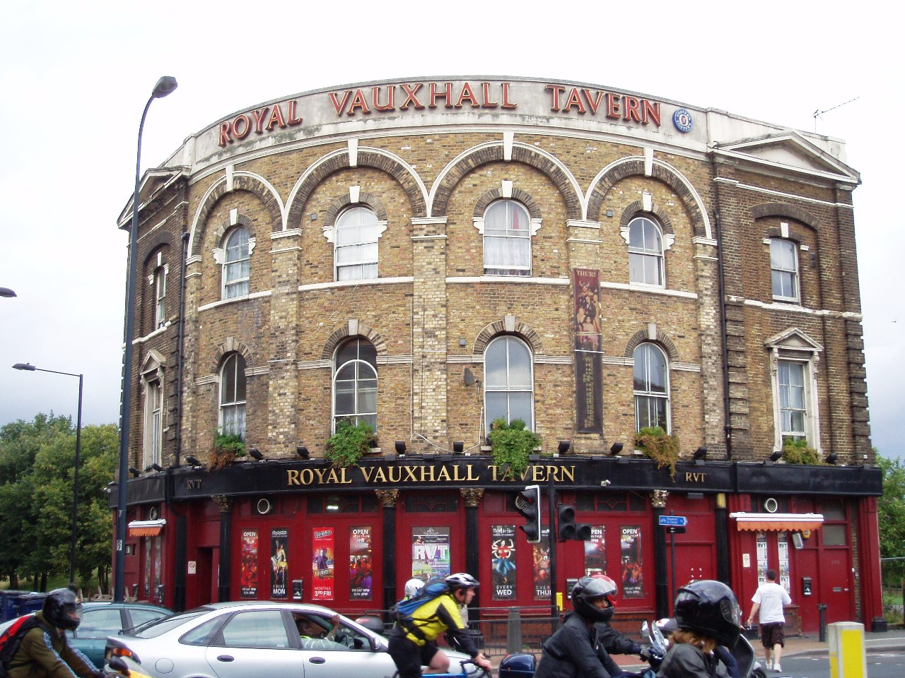 It looks closed from this photo, but it's not. In many ways this is less a pub than a venue, but it serves beer and puts on some good events. Address: 372 Kennington Lane. Owner: (website). Links: Pubs Galore Beer in the Evening Dead Pubs (history)